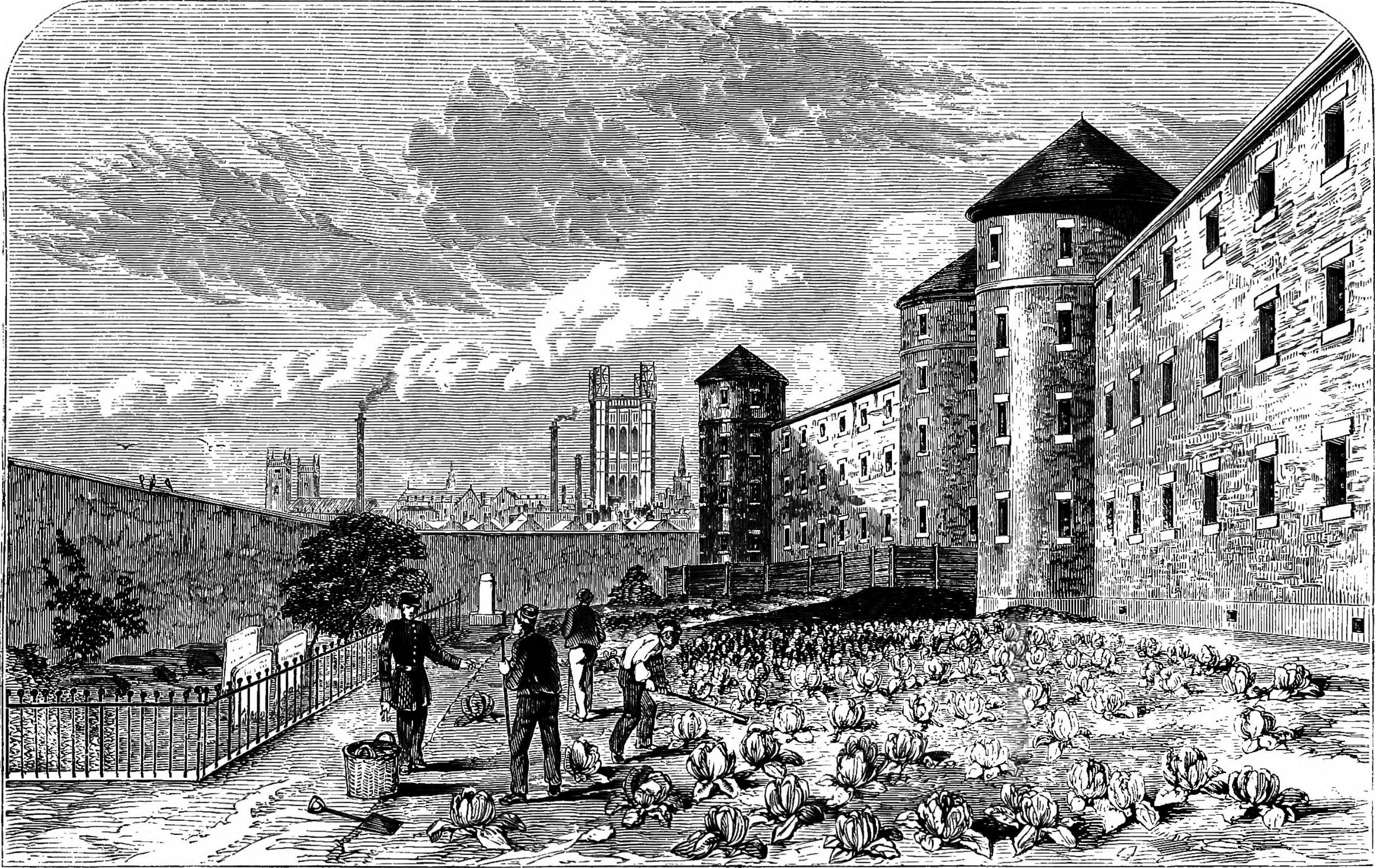 Burial ground at Millbank Prison, London.